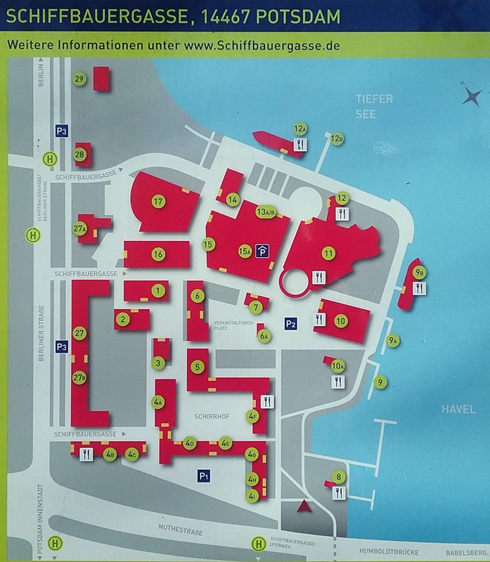 Schiffbauergasse (Ground Plan)